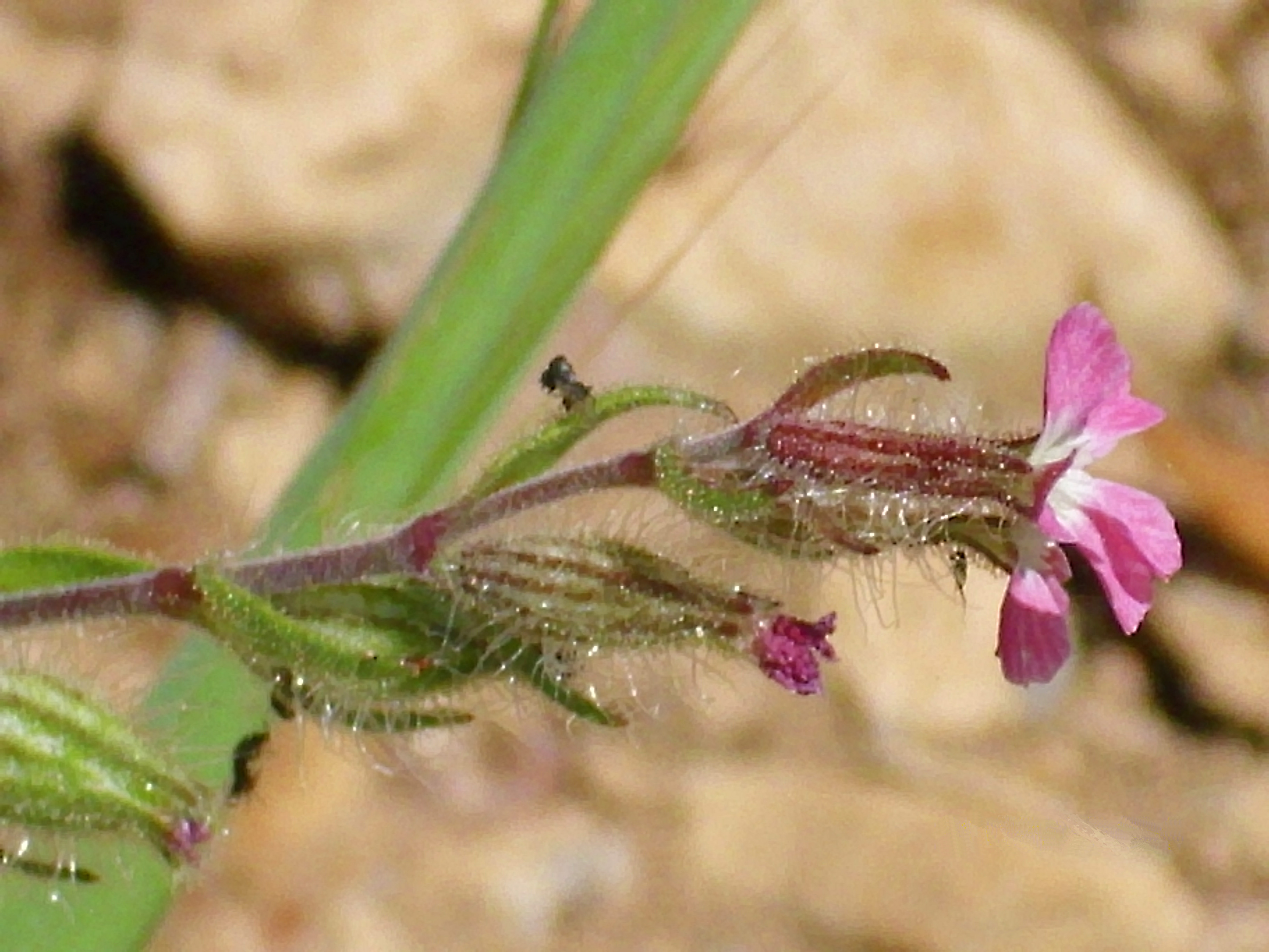 Silene gallica close up, Sierra Madrona, Spain.